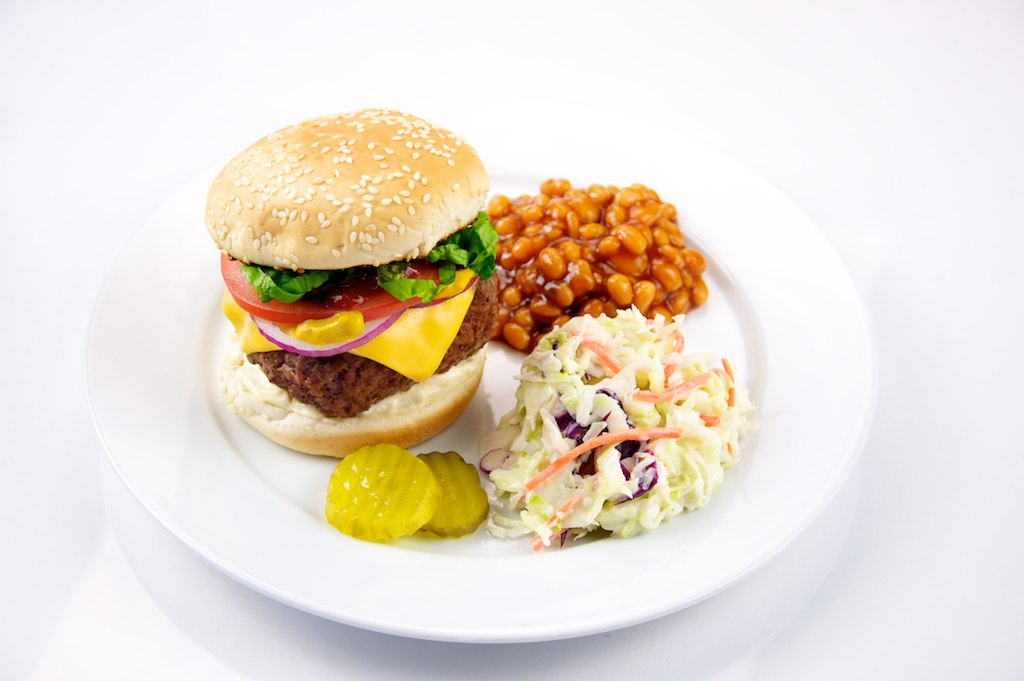 Cheeseburger with Baked Beans and Coleslaw